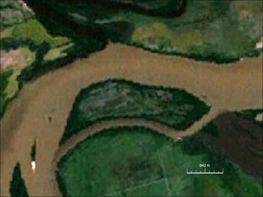 Isla Brasilera, river island, northern Uruguay/southeastern Argentina